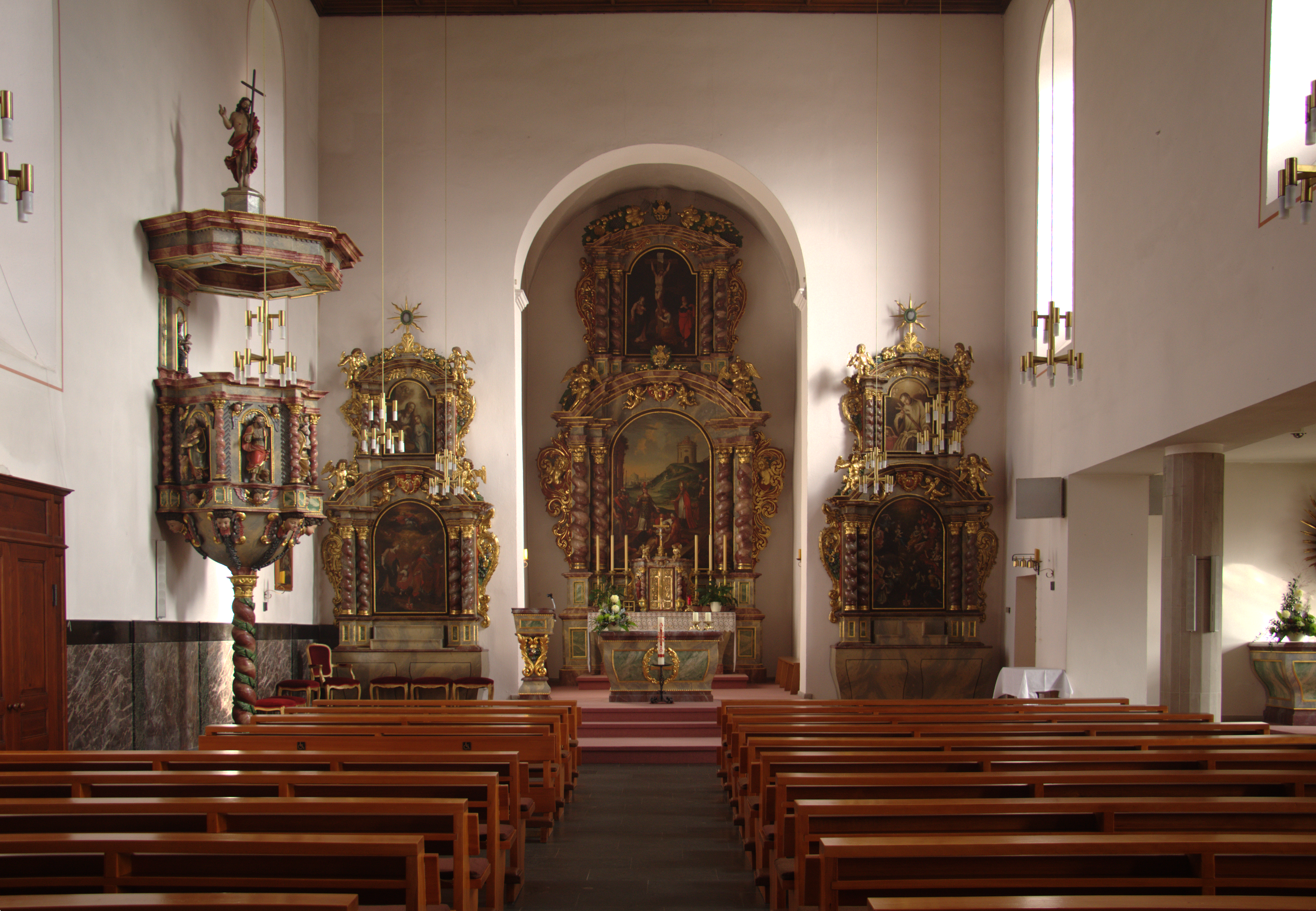 Catholic church - St. Vitus (Altar) in Bad Salzschlirf / Hesse / Germany